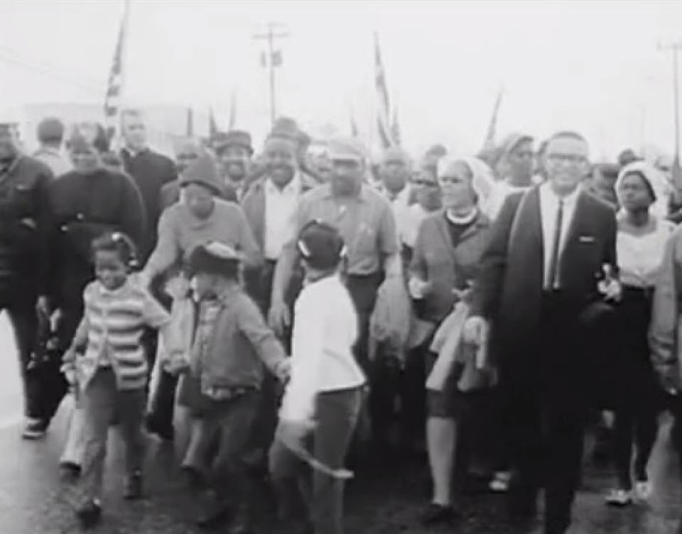 Donzaleigh Abernathy, Ralph David Abernathy 3rd & Juandalynn Abernathy lead Mrs. Juanita Jones Abernathy, Dr. Ralph David Abernathy, Dr. Martin Luther King, Mrs. Coretta Scott King and hundreds of Marchers down Alabama Highway 80 for Black People and all people of color to have the Right To Vote all over America.